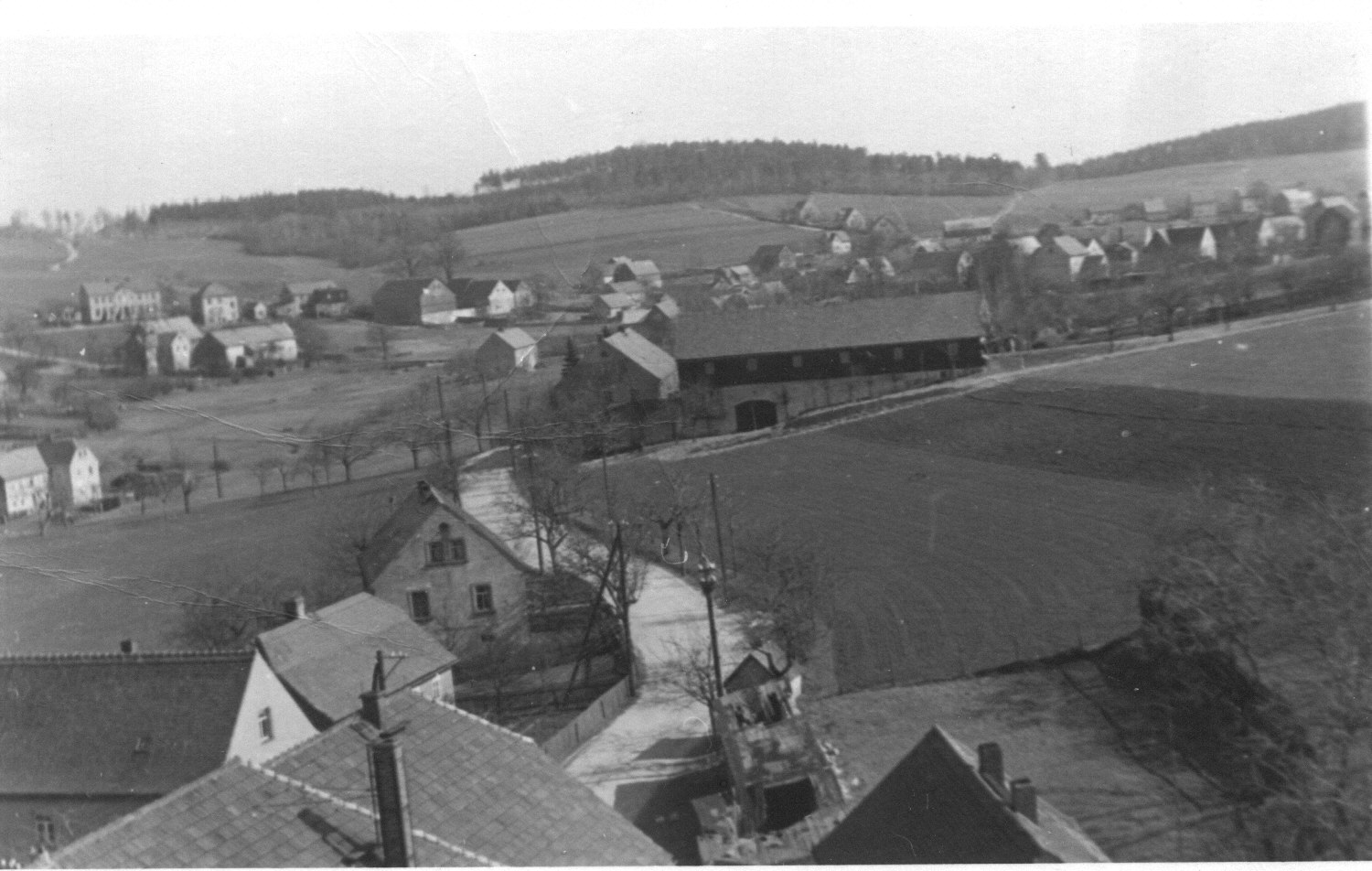 Troebigau in the 1950s